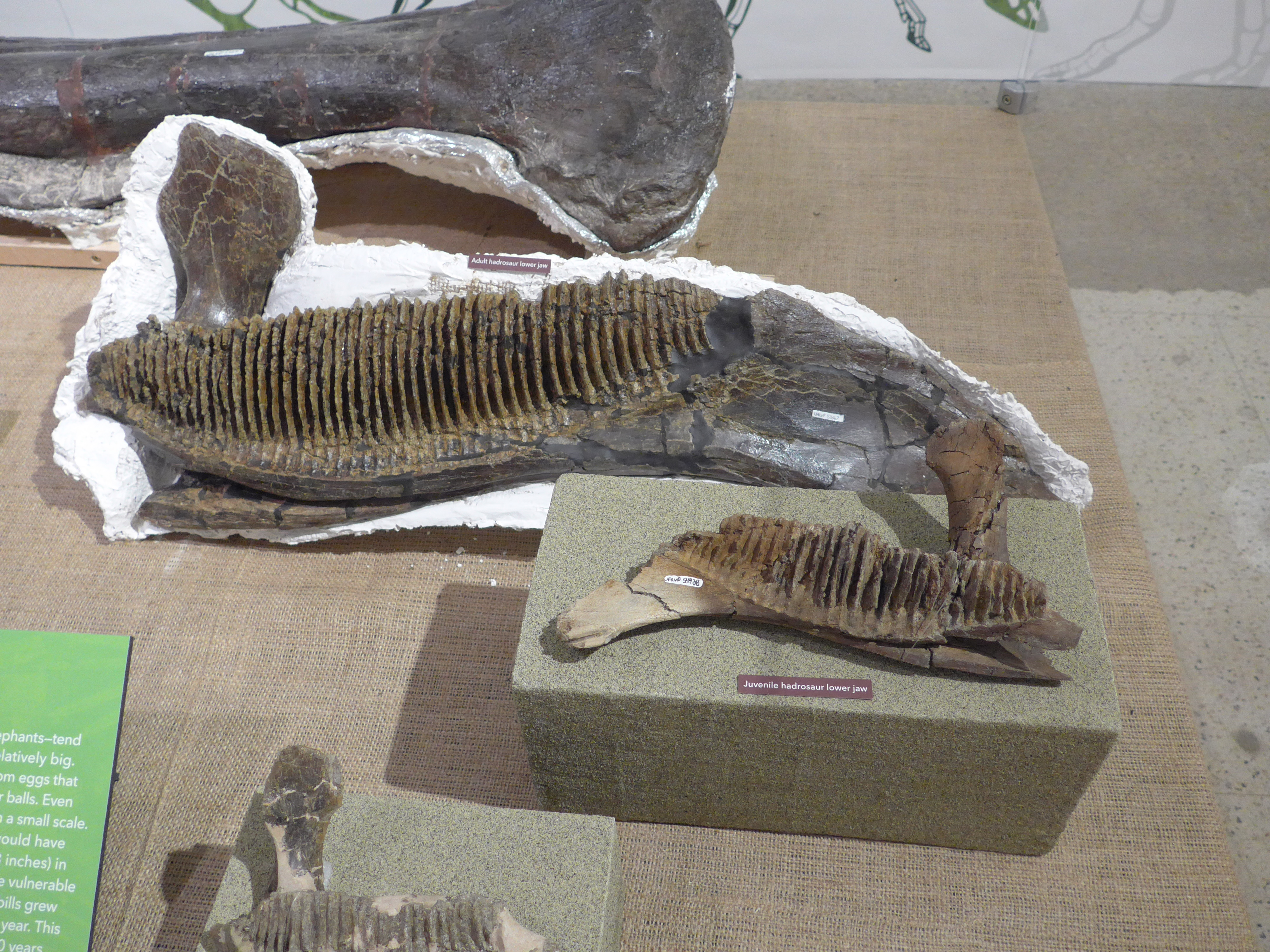 adult and juvenile hadrosaur jawbone from the badlands of Alberta